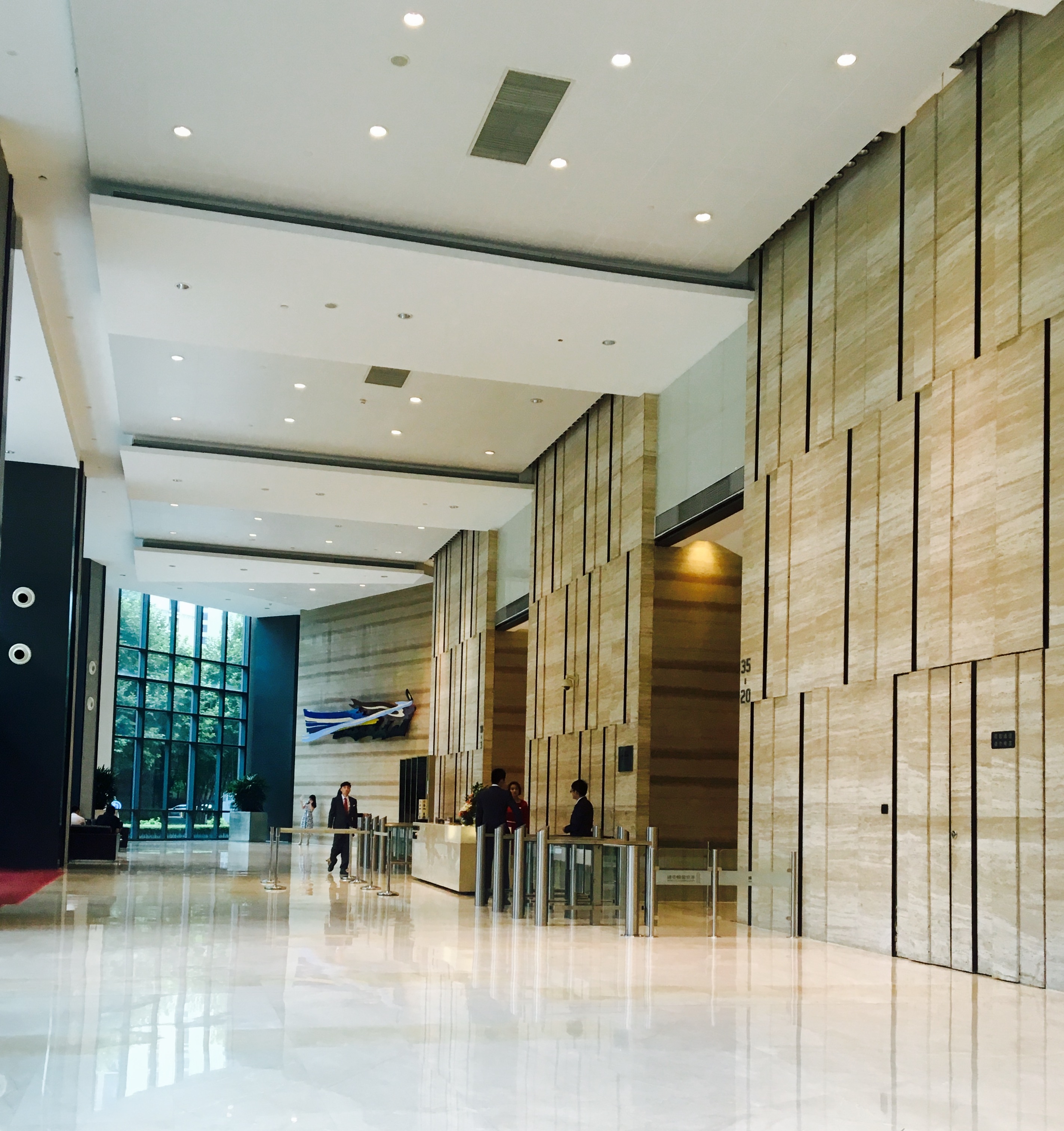 Lobby of Pingan Finance Centre in Wuhan